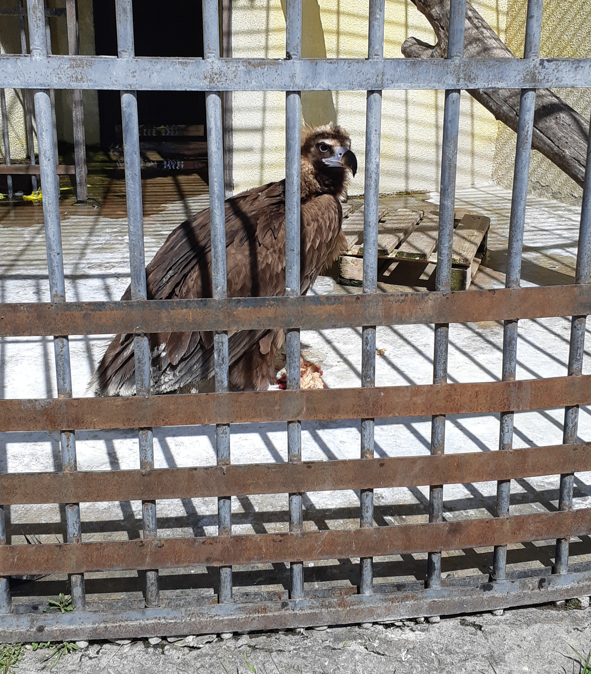 Griffon vulture (Gyps fulvus) in Gori zoo